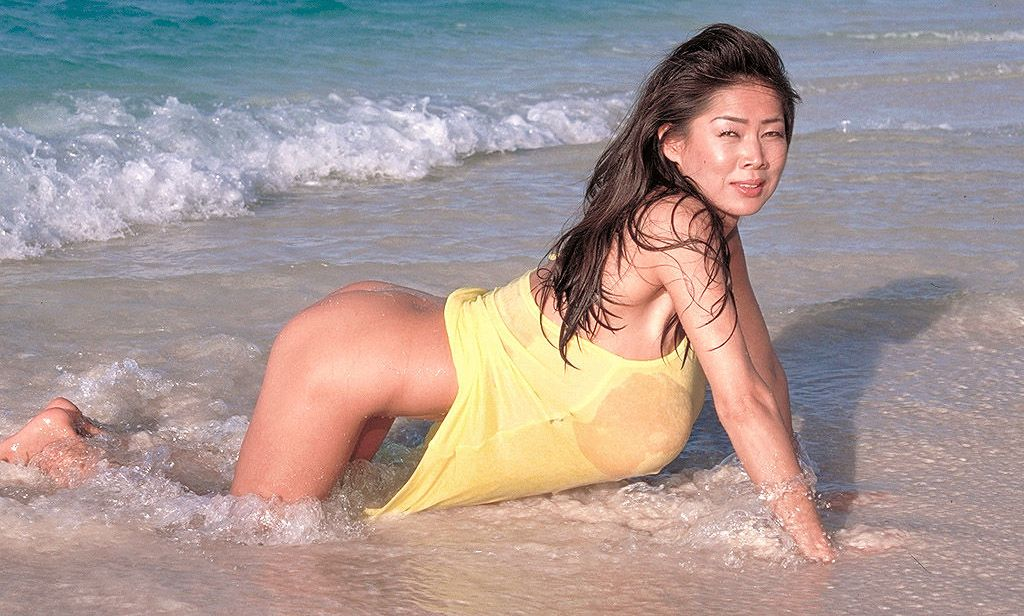 Model, stripper and actress Minka.